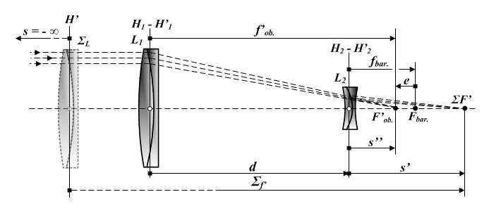 Focal extender using a Barlow lens.